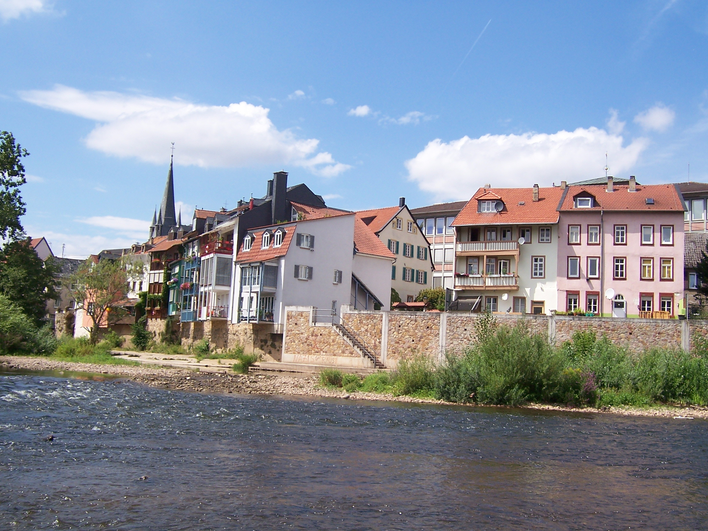 The older part of Bad Kreuznach, view from the other side of the Nahe river